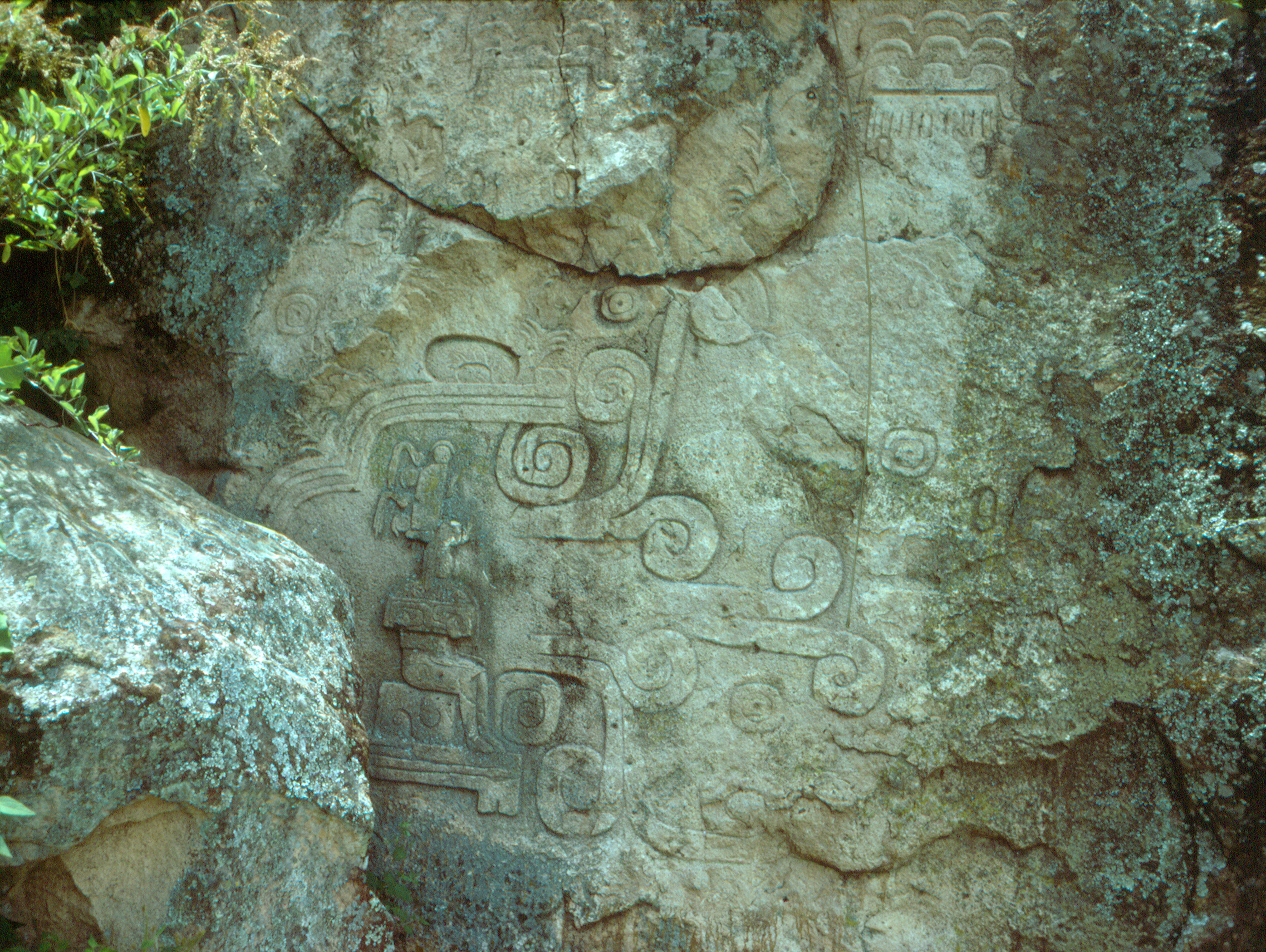 Chalcatzingo, Morelos, Mexico: Rock carving no. 1